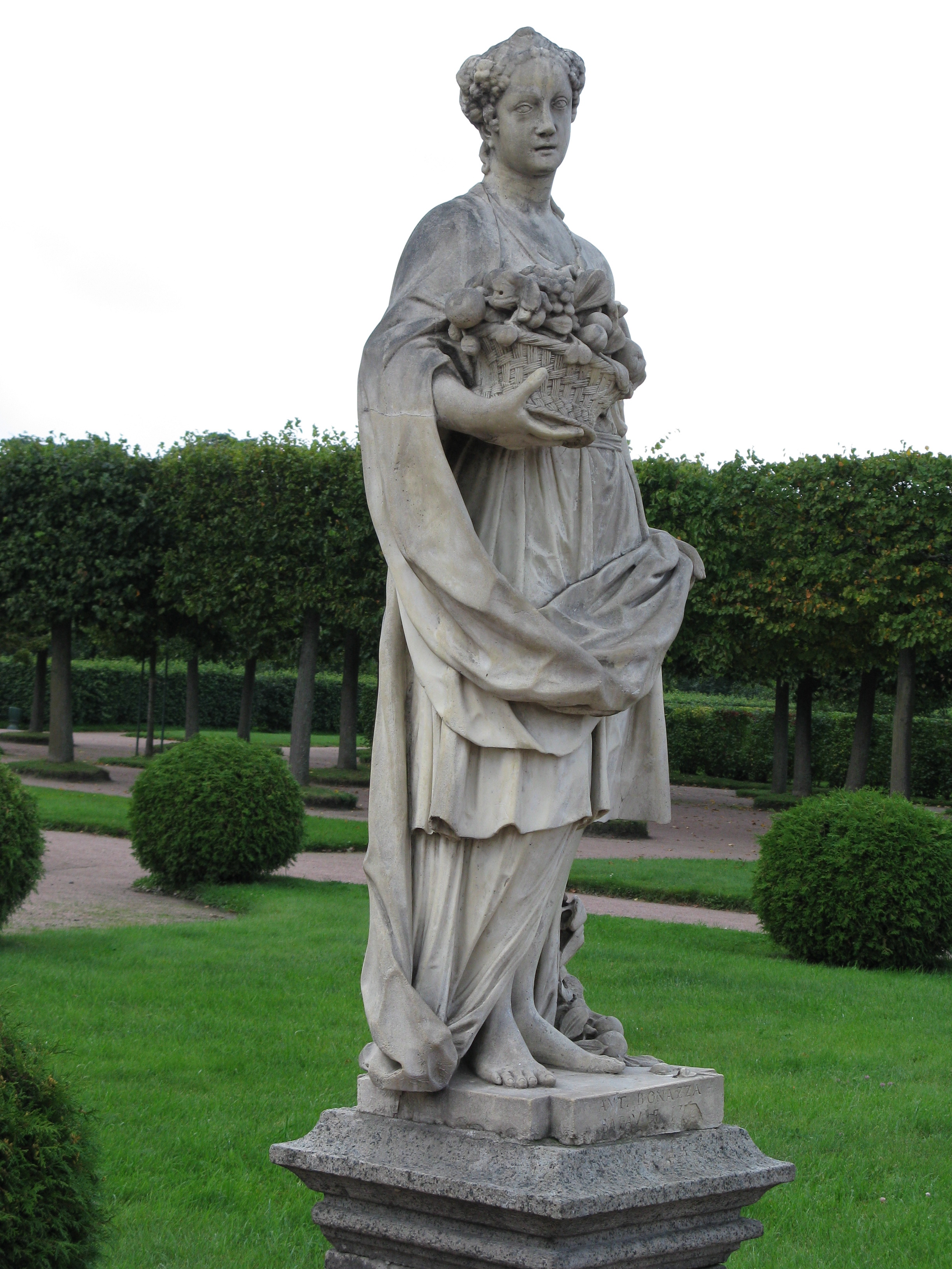 Pomona by Antonio Bonazza at Upper Gardens of Peterhof.